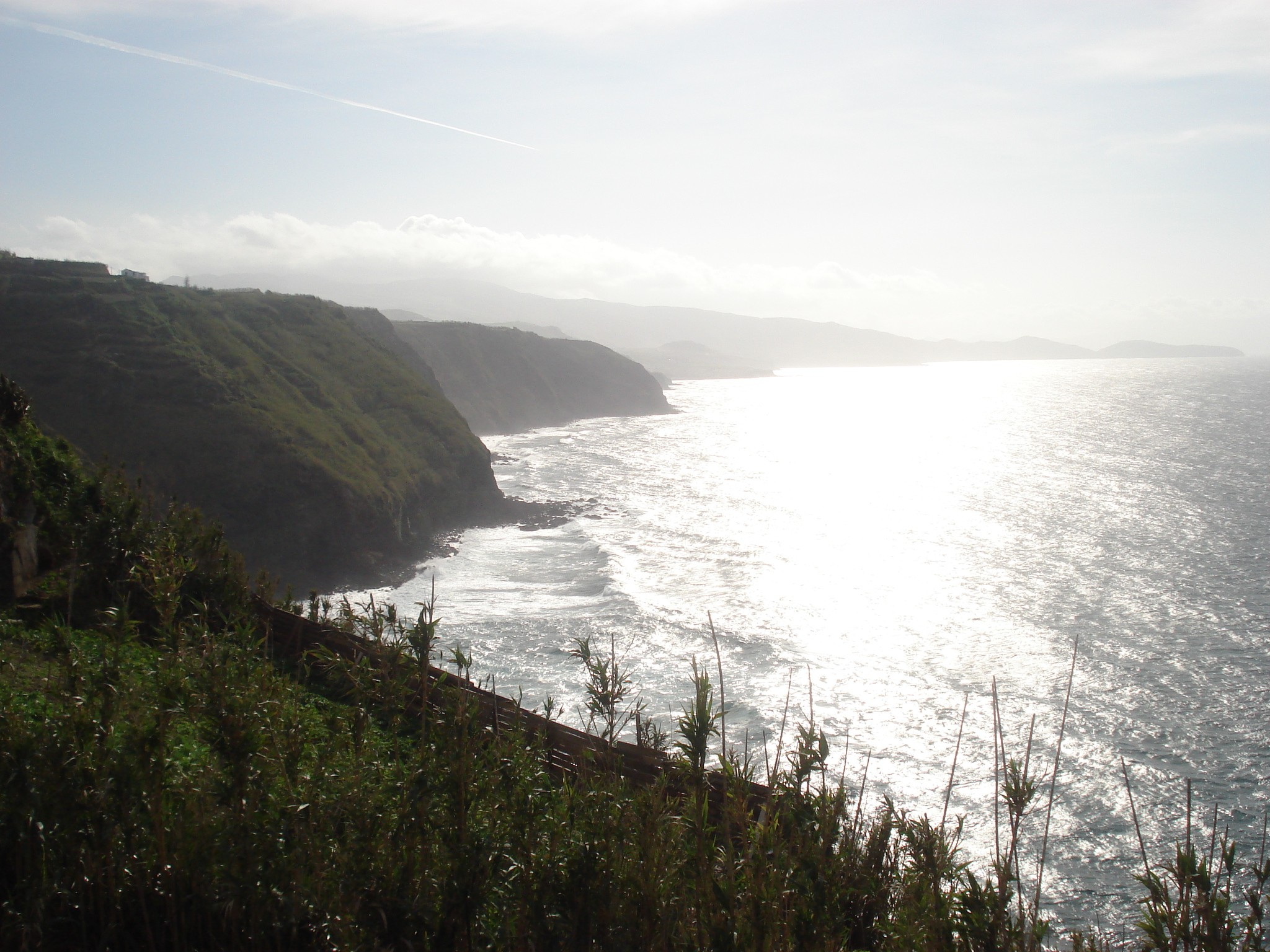 Northern coast of São Miguel, in the parish of Fenais da Ajuda, Ribeira Grande